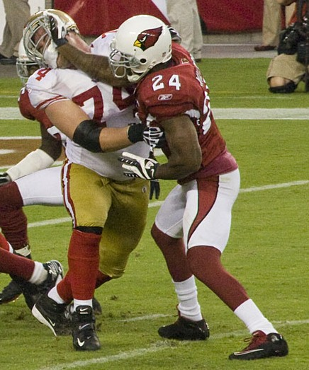 Arizona Cardinals safety, Adrian Wilson, in a 2009 game against the San Francisco 49ers.